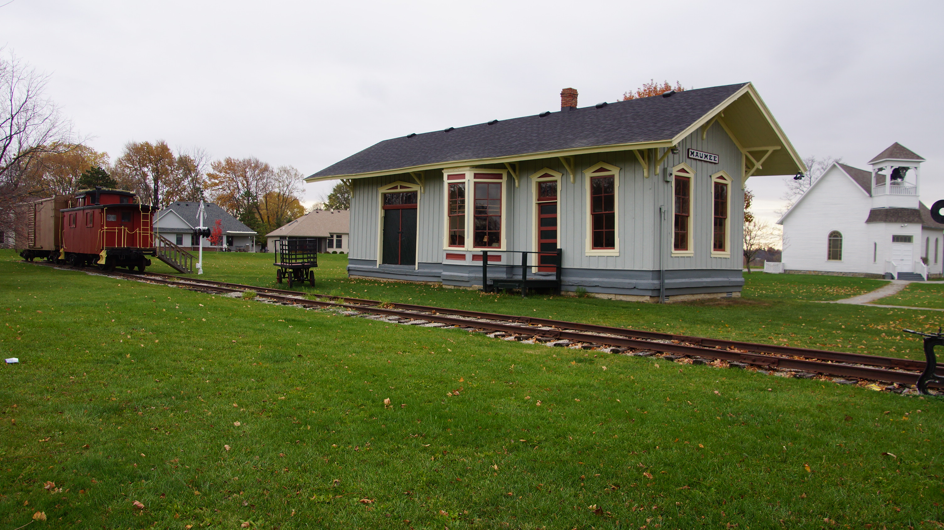 Maumee OH - C & O Toledo Terminal 02